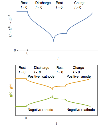 During discharging a secondary batterie, the positive electrode is an cathode and the negative is an anode. On the other hand during charging, the positive electrode is a anode and the negative is a cathode.